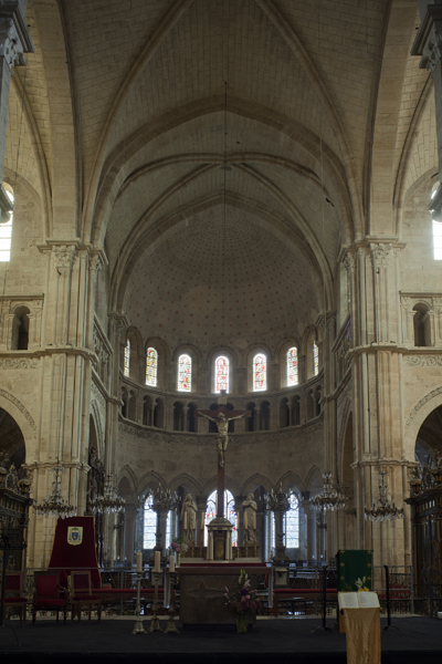 Langres; Cathédrale Saint-Mammès; ; France; Cathedral Cathédrale Saint-Mammès. Interior. The choir. Romanesque. 1141 - 1196. ; photo: Paul M.R. Maeyaert; ; Ref: PM_107706_F_Langres.jpg